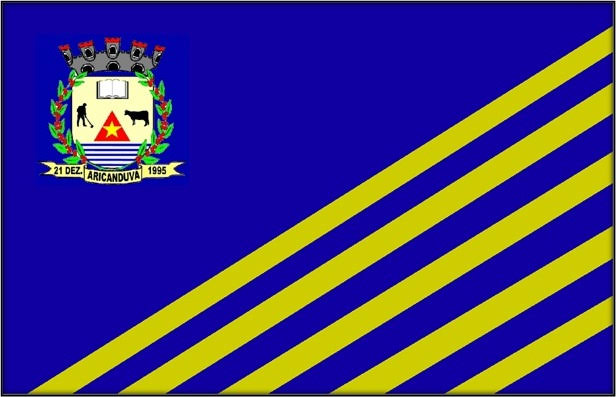 Flags of the city of Aricanduva, Minas Gerais , Brazil.